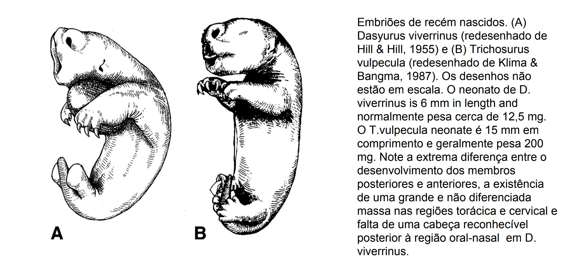 Embryos os newborn marsupials. Drawing